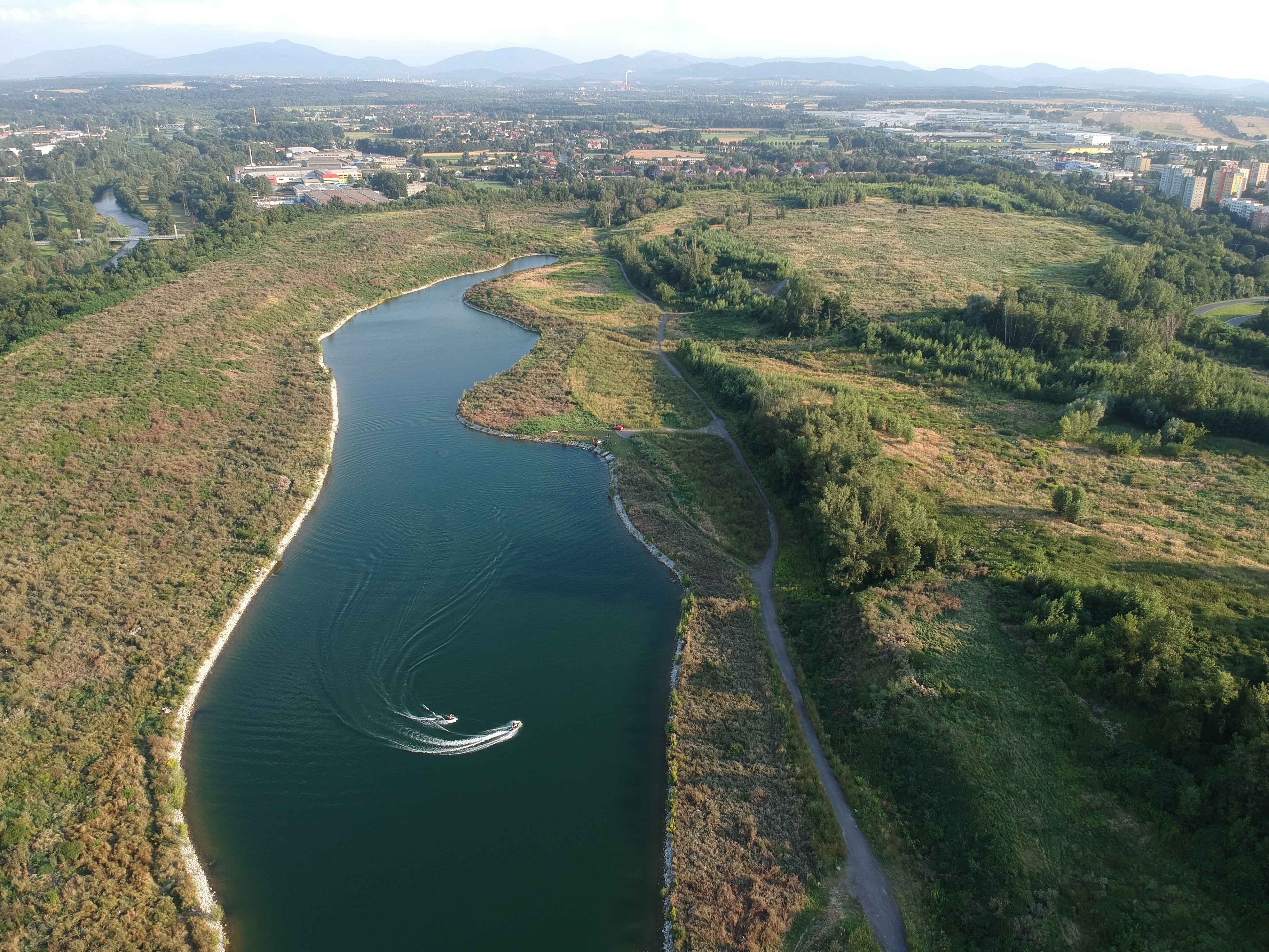 Old heap revitalized into leisure time resort